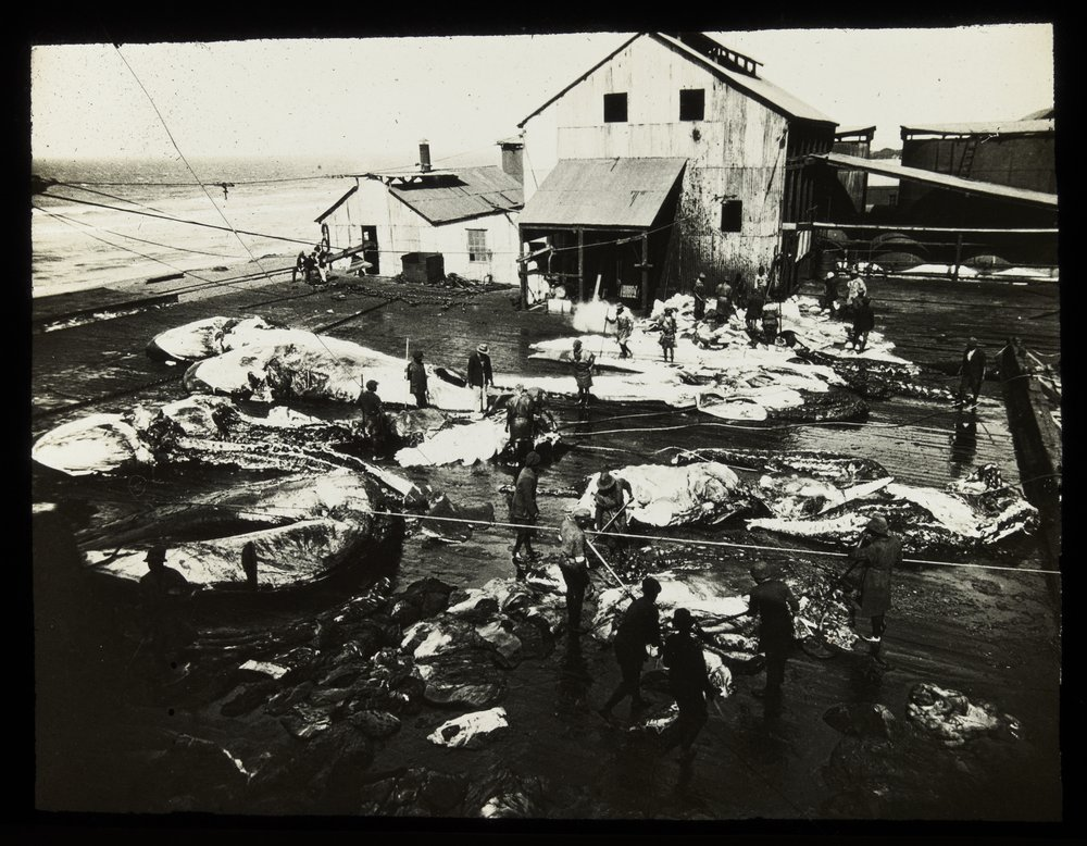 View of men holding harpoons, walking and working amongst the dead whales, with tin buildings and conveyer belts in view, possibly a whaling station.